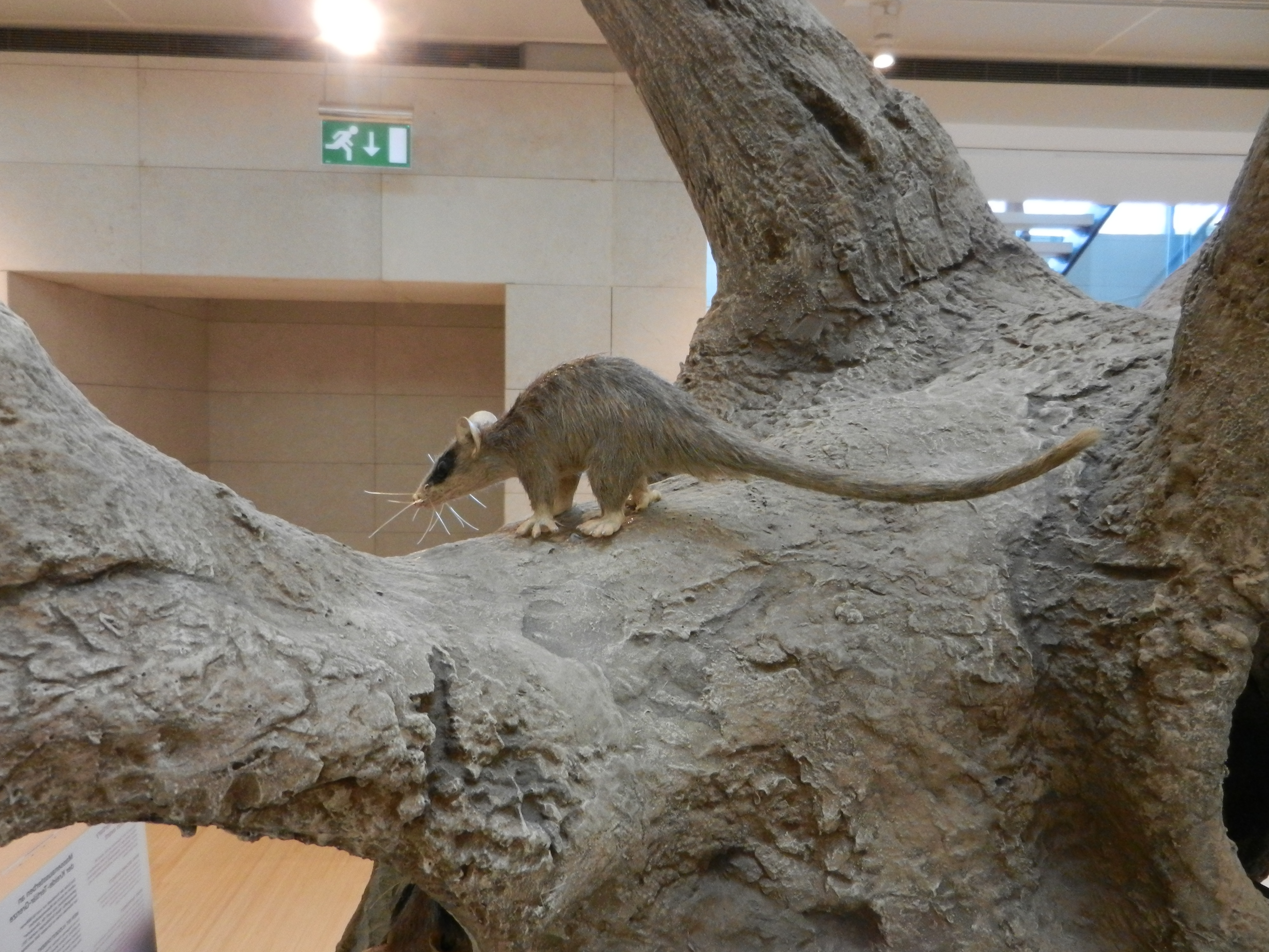 Reconstruction of Alphadon sp. and skull of Triceratops horridus at MUSE - Science Museum in Trento.